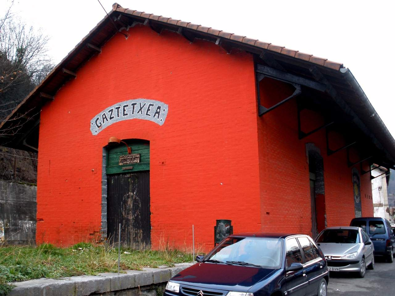 Gaztetxe de Alegia (Guipúzcoa)